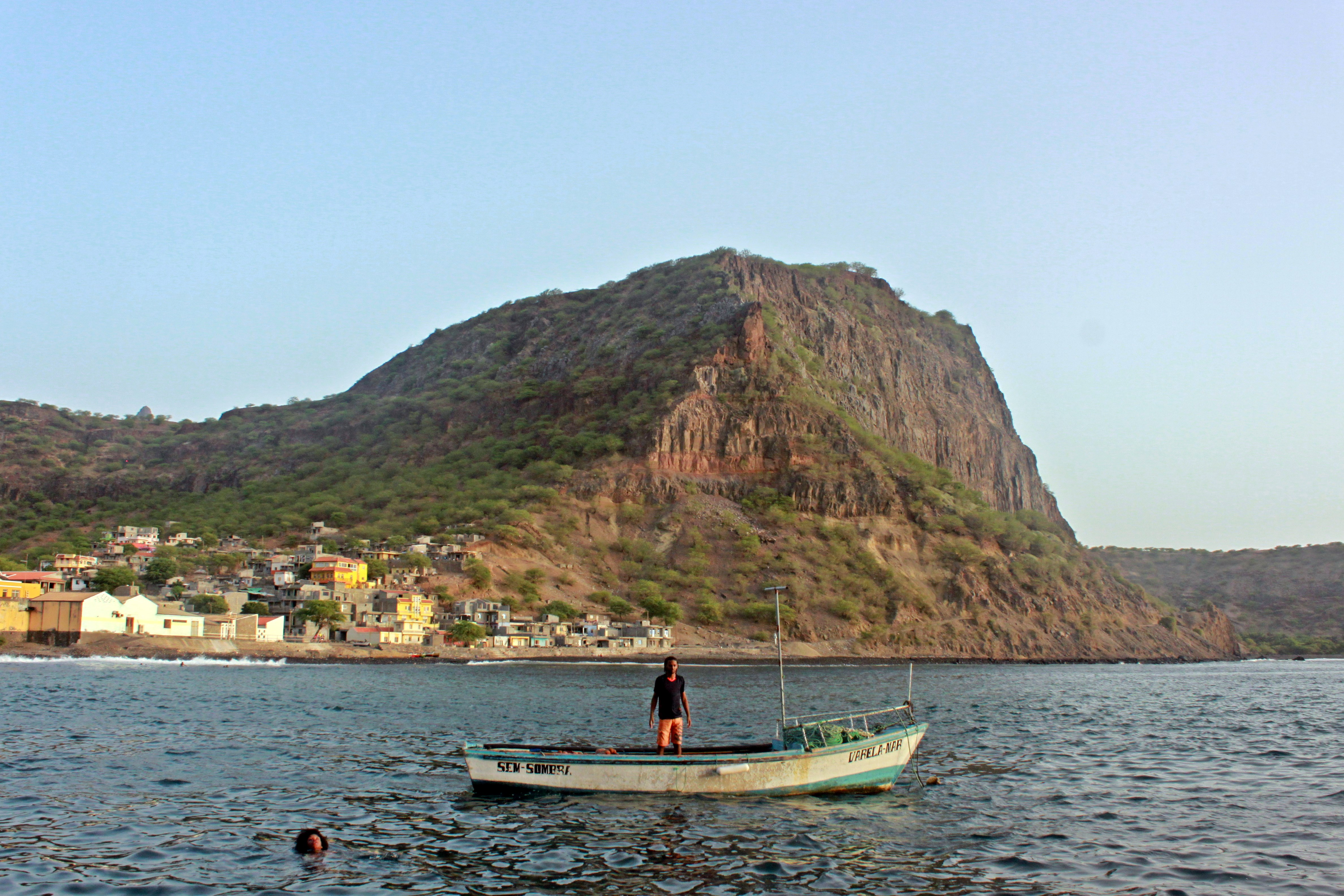 swimer This is an image of "African people at work" from Cape Verde